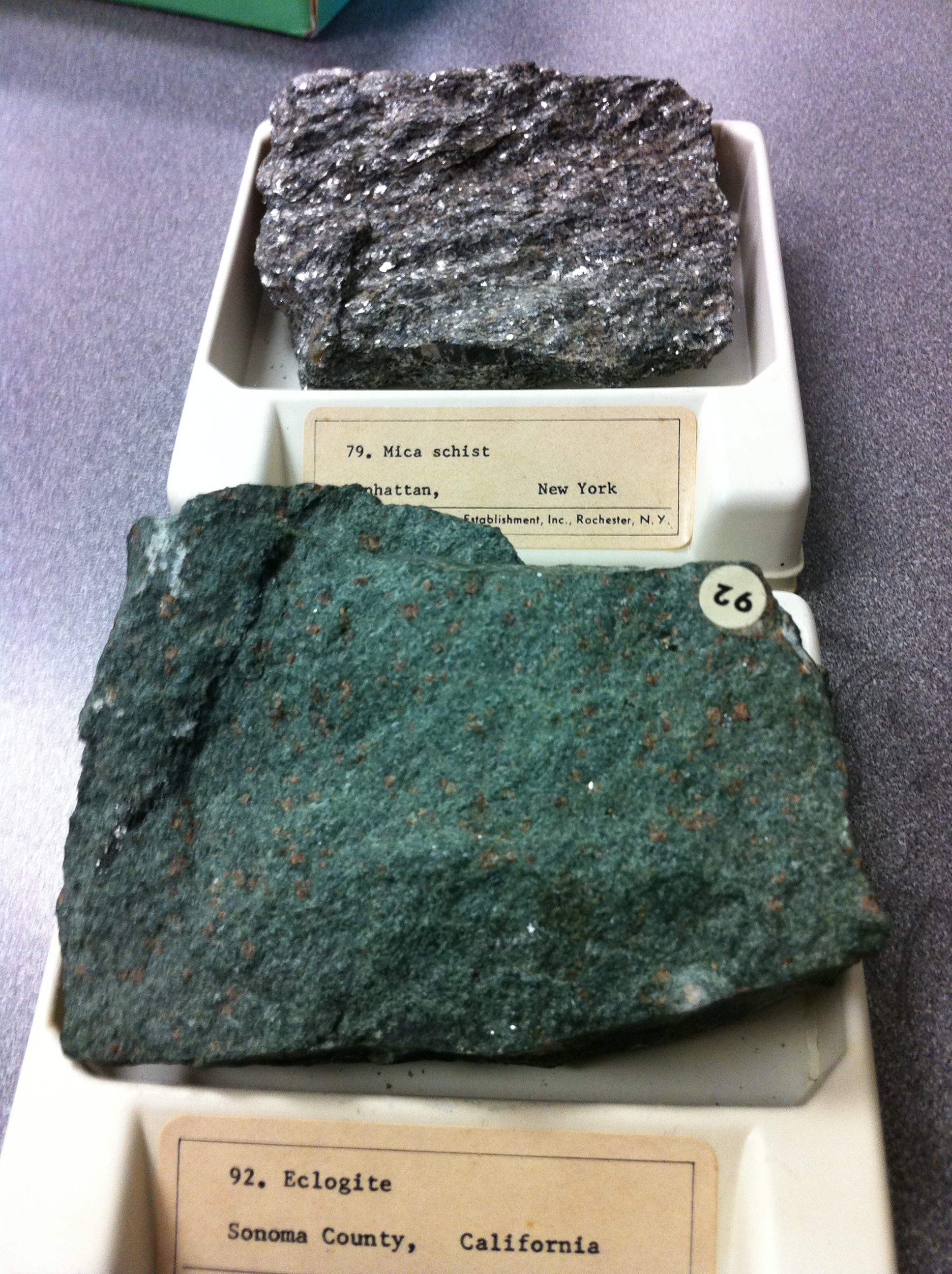 Photo taken at South Seattle Community College in West Seattle, WA